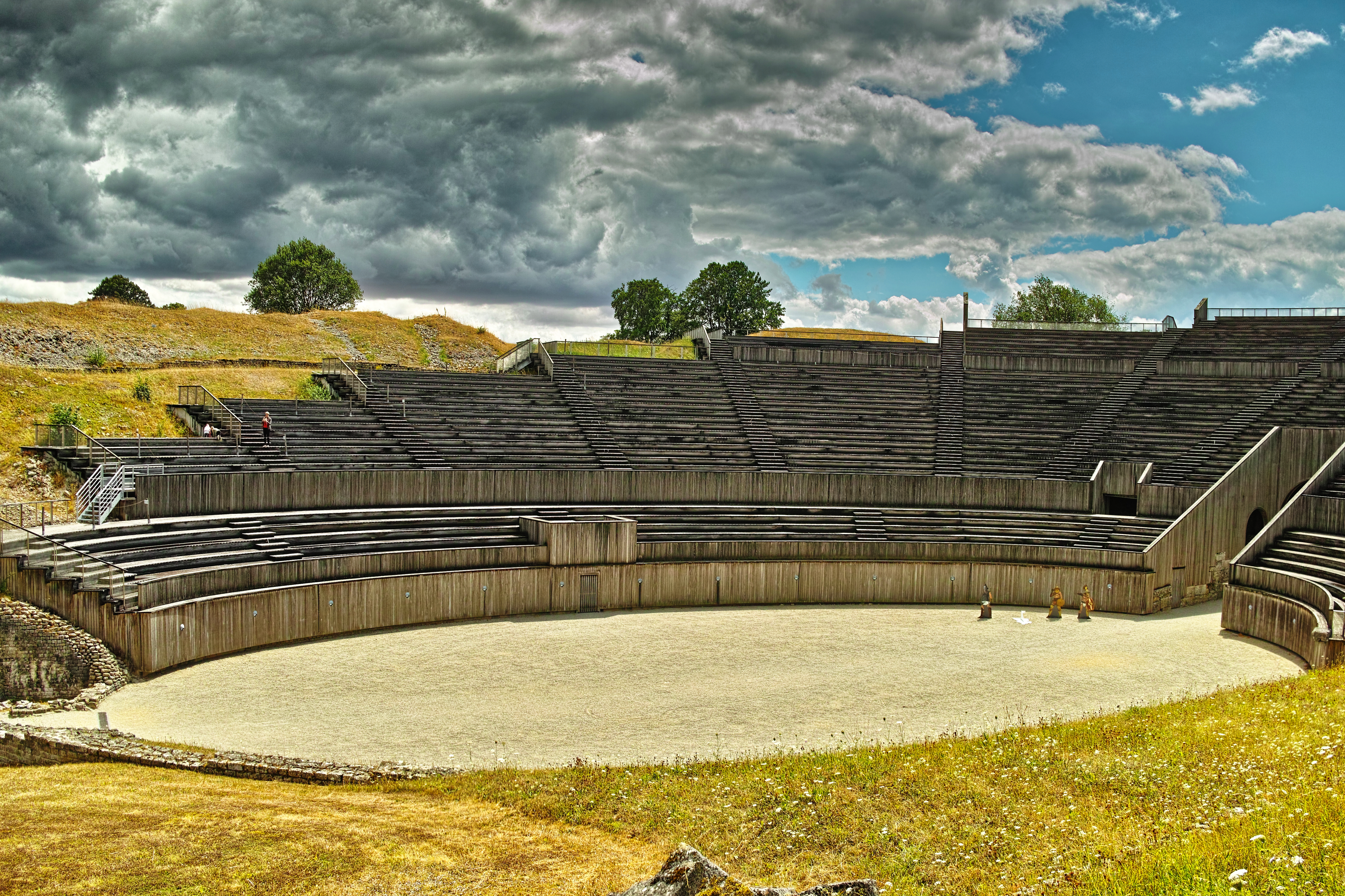 Amphithéâtre de Grand Vue générale de l'amphithéâtre